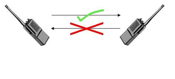 simplex model